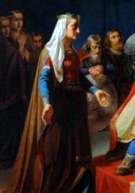 King Gorm the Old receives the news of the death of his son Canute (Danish: Thyra Dannebod meddeler Kong Gorm den Gamle underretning om hans søn Knuds død)